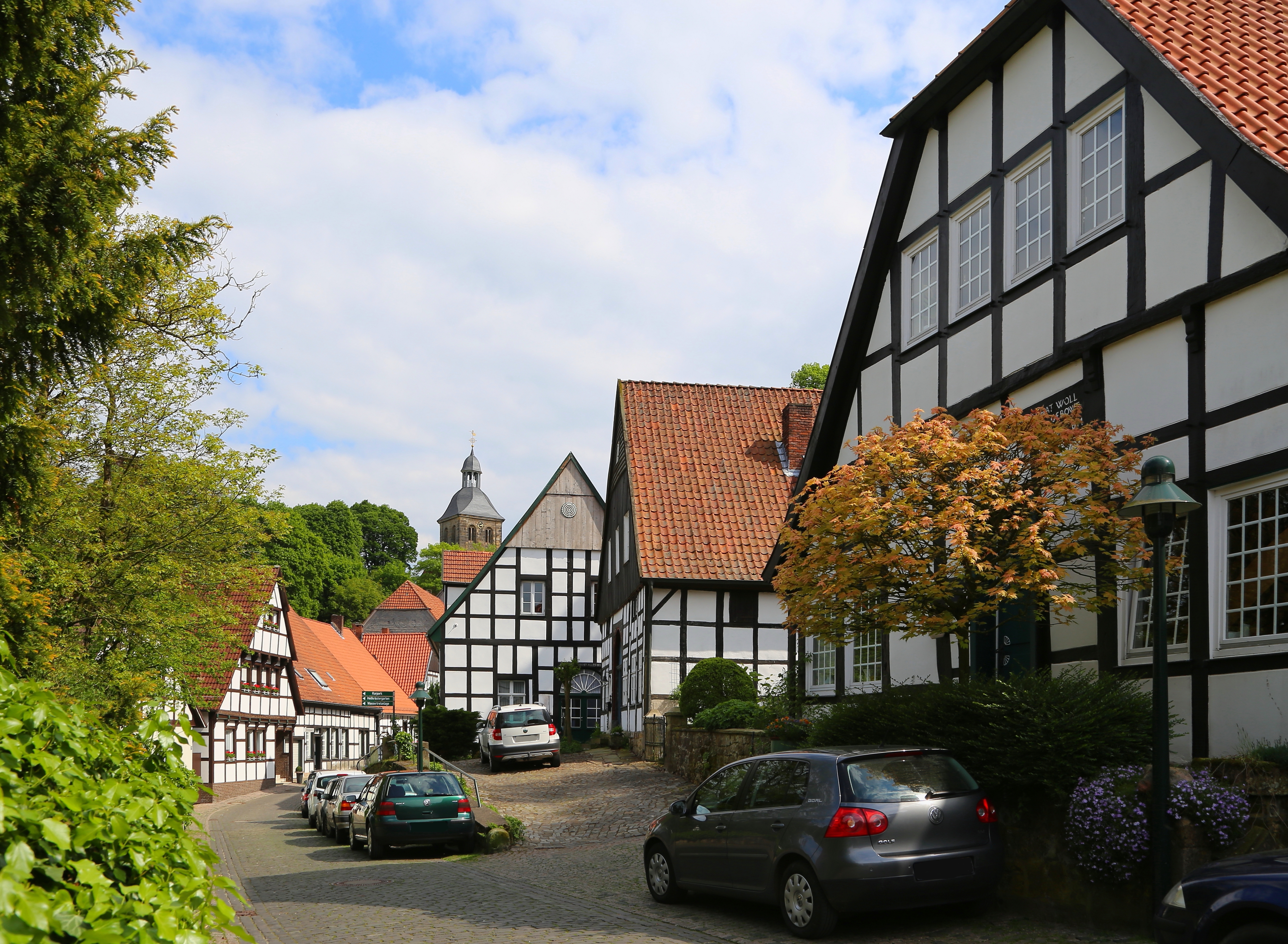 Typical timber framed houses in the historic city of Tecklenburg, Kreis Steinfurt, North Rhine-Westphalia, Germany.